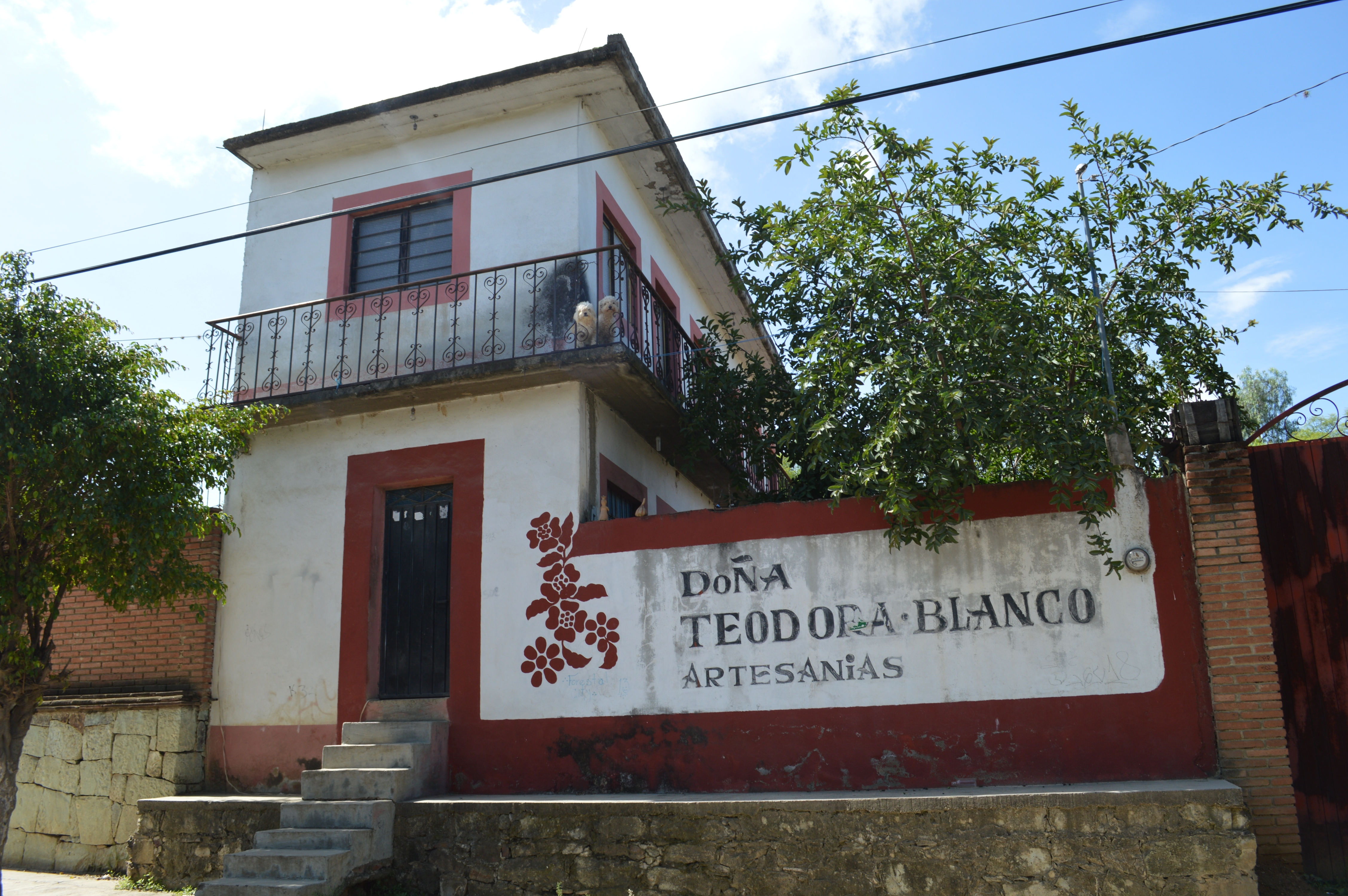 Teodora Blanco family compound in Santa Maria Atzompa, Oaxaca, Mexico